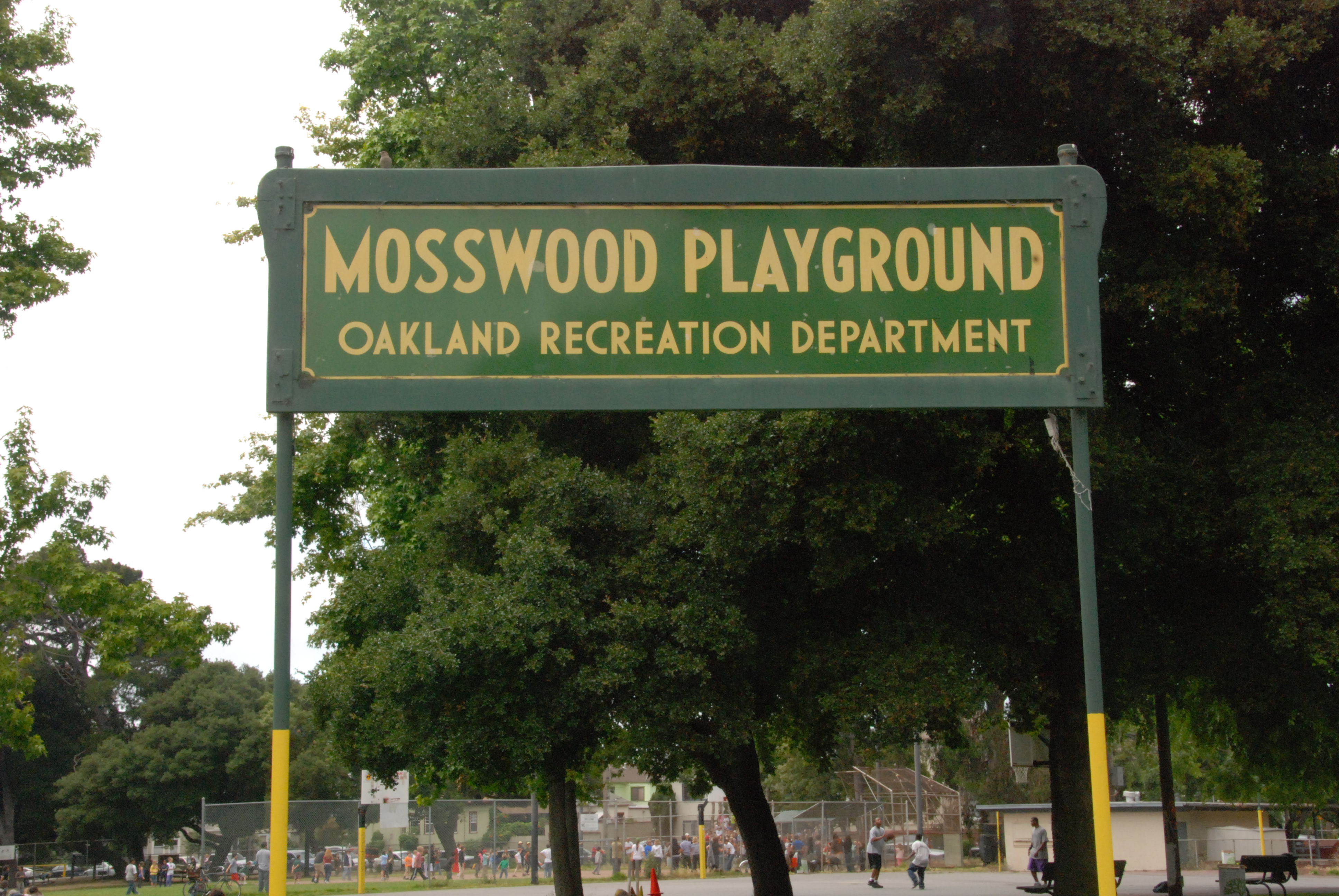 Photography in front of Mosswood Park